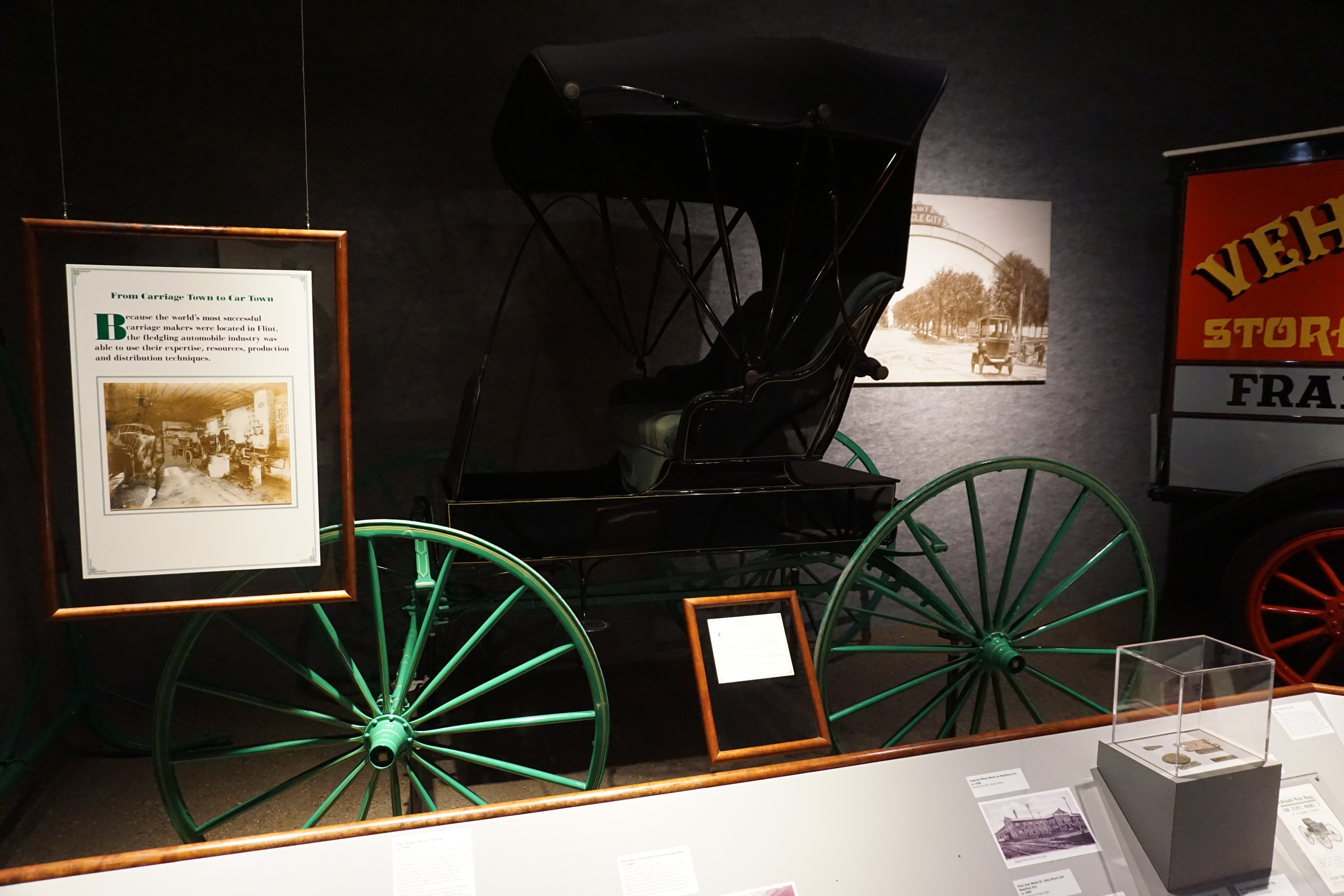 A circa 1908 Flint Wagon Works carriage at the Sloan Museum in Flint, Michigan (United States).